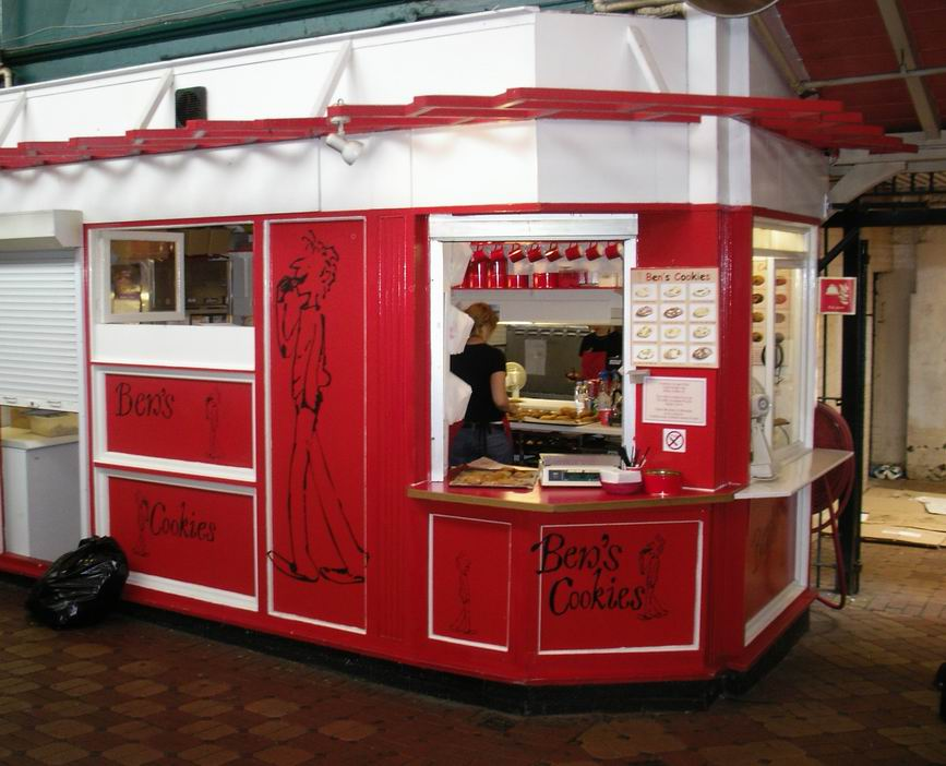 The original Ben's Cookies located in the Covered Market in Oxford, UK.